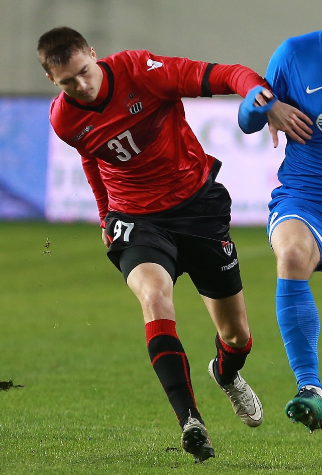 Fyodor Dvornikov in action for FC Khimki in a game against FC Dynamo Moscow.